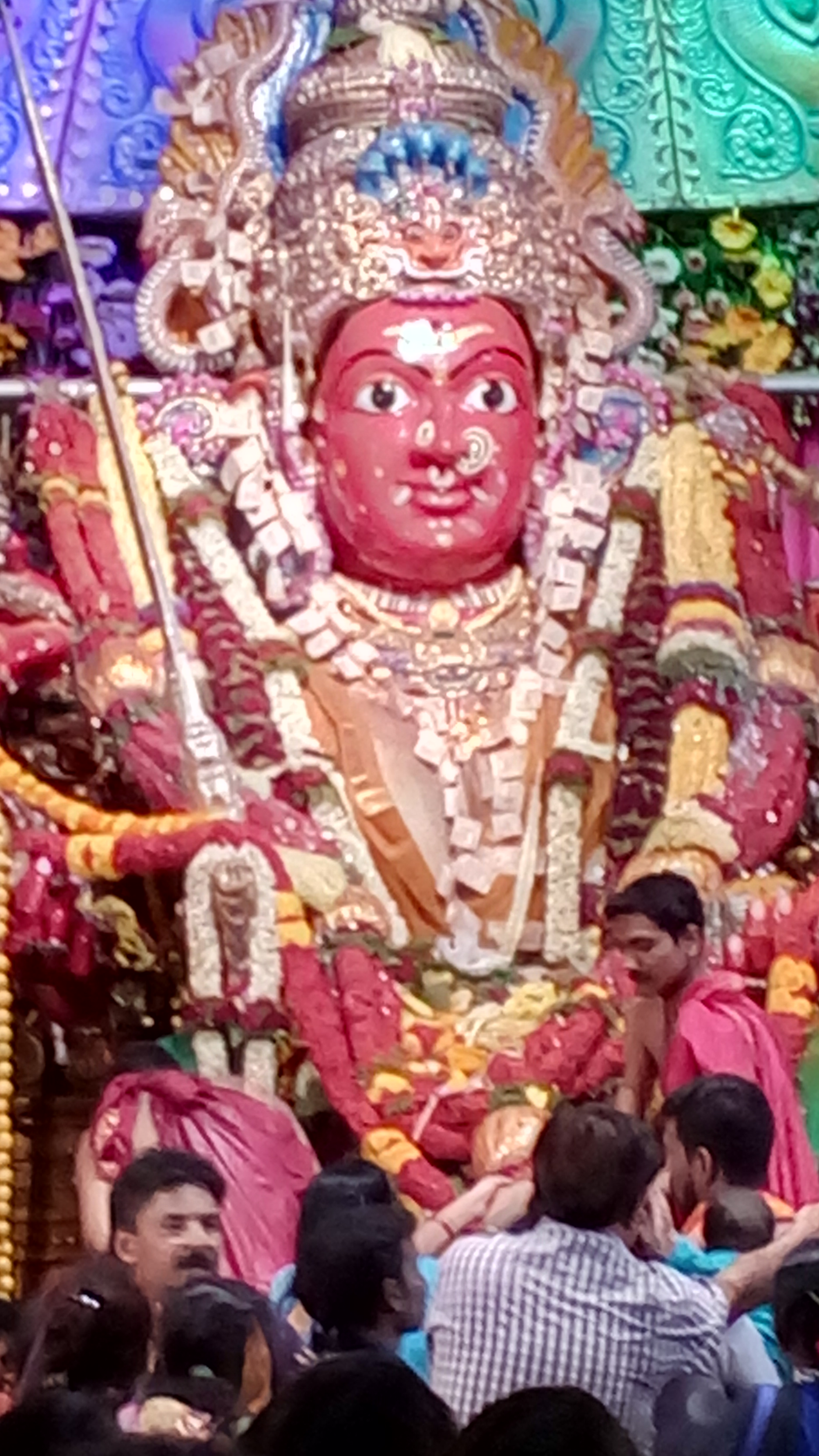 Marikamba of Sagar